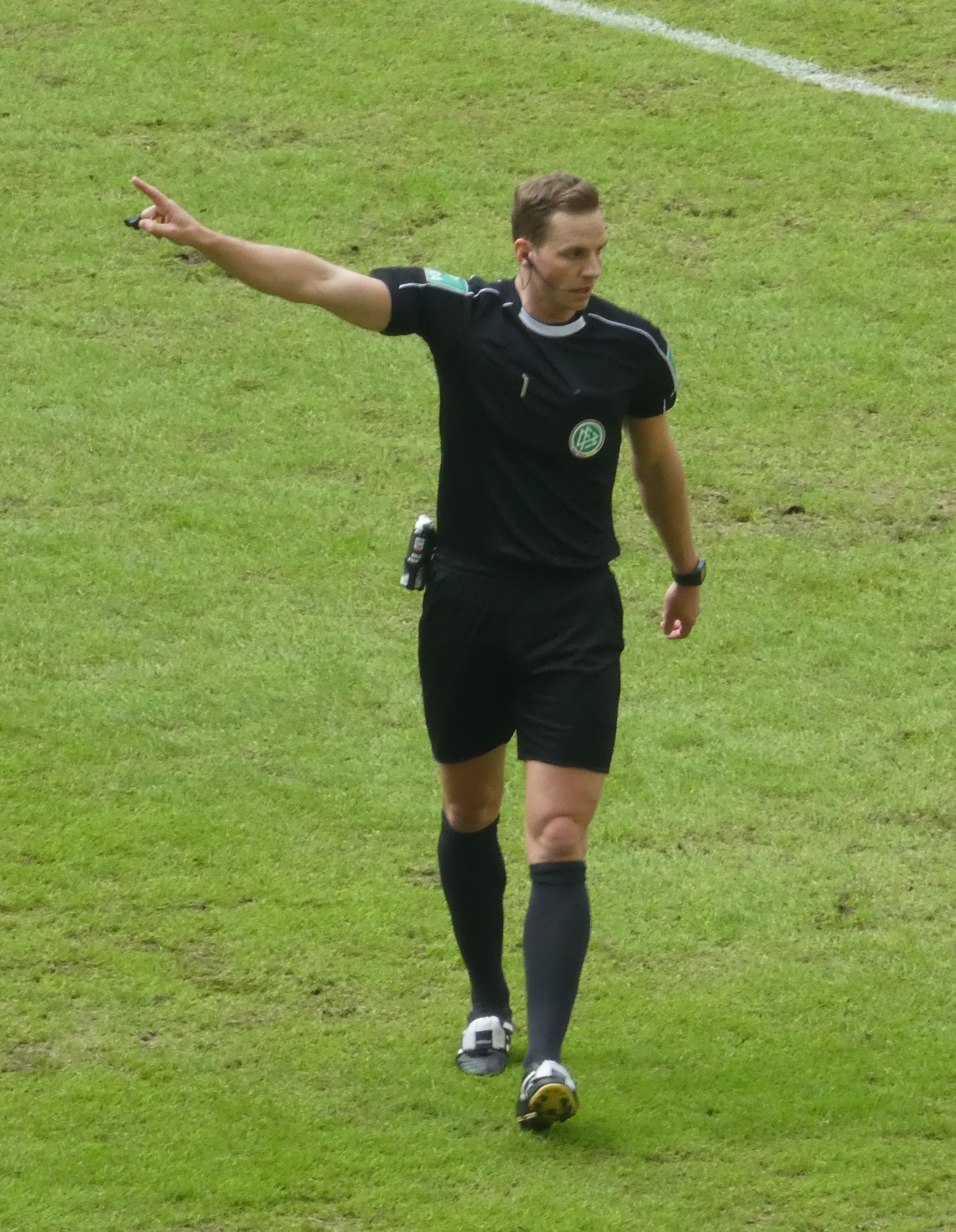 German soccer referee Sören Storks